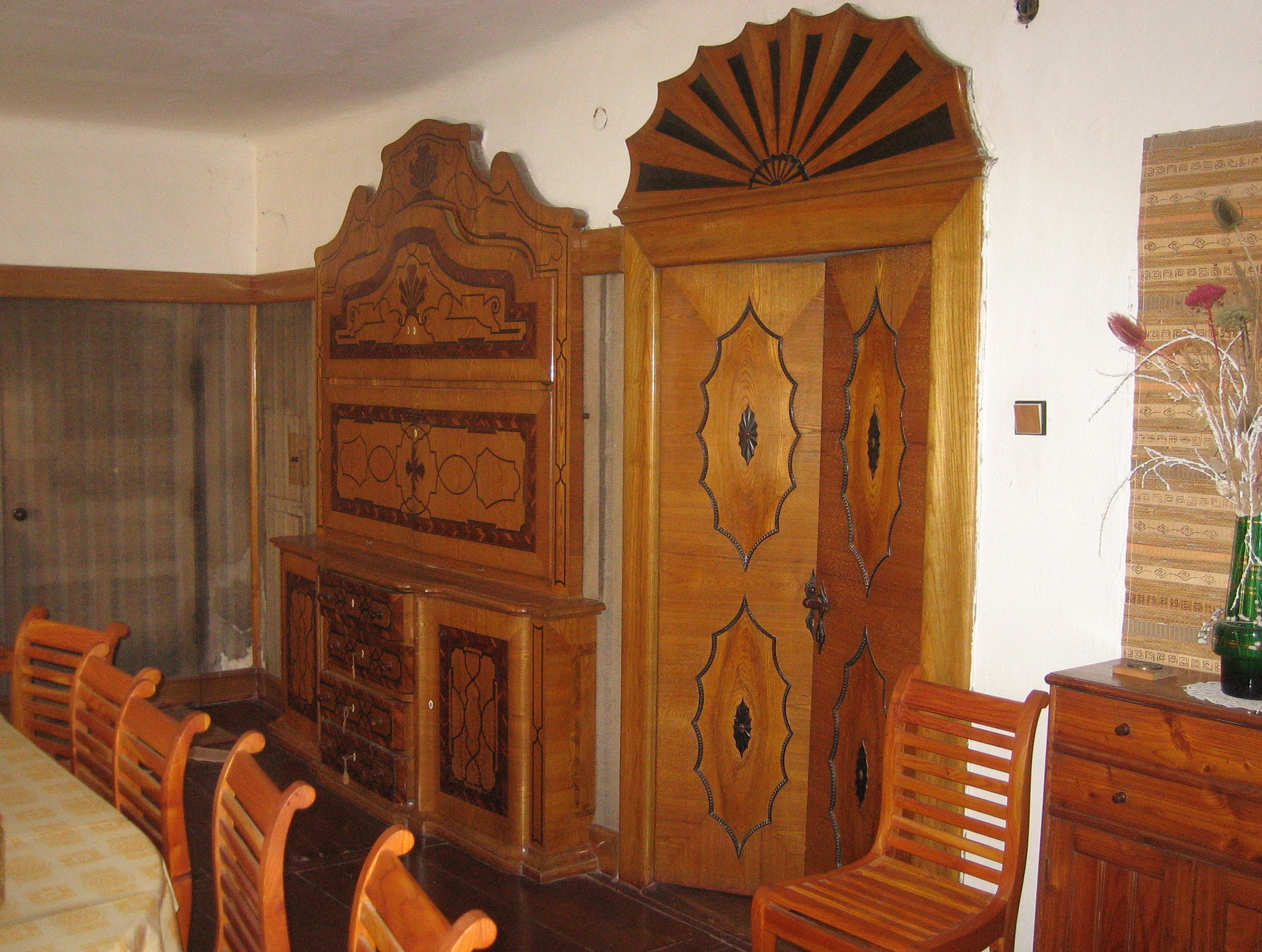 Wydrna manor, south-east of Poland